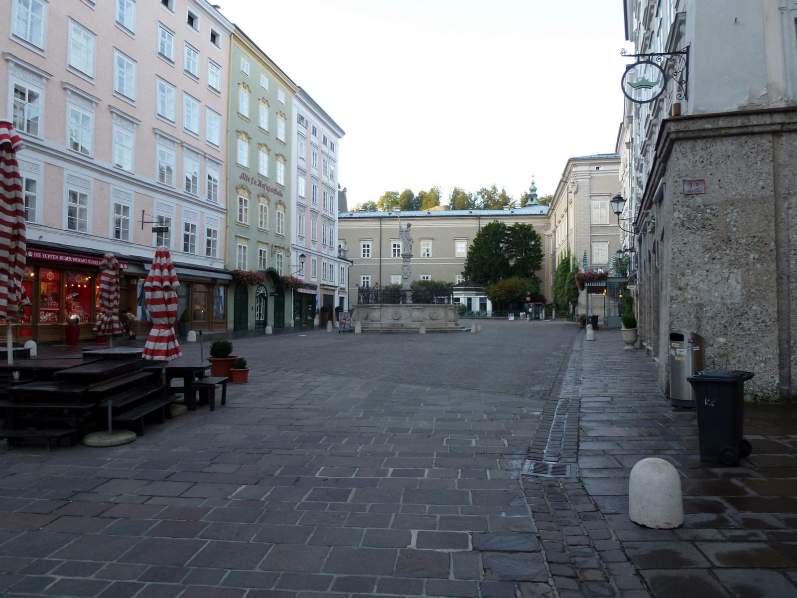 Alter Markt (Salzburg)